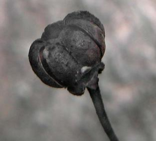 Spotted wintergreen seed pod, photo taken march 2006, in NC, USA.